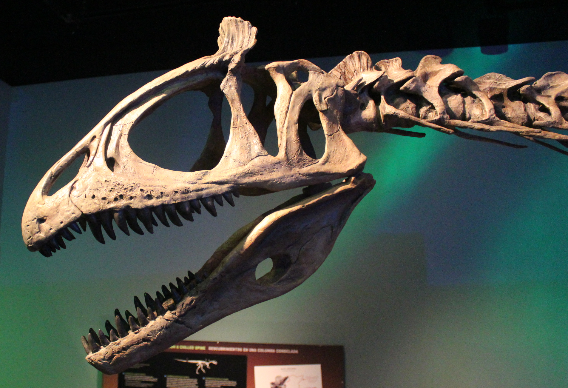 Close-up of the FMNH Cryolophosaurus' head.